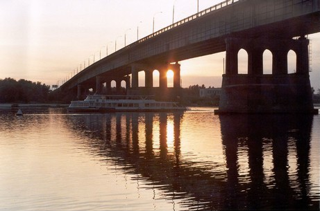 Lenigrad bridge across Irtysh in Omsk